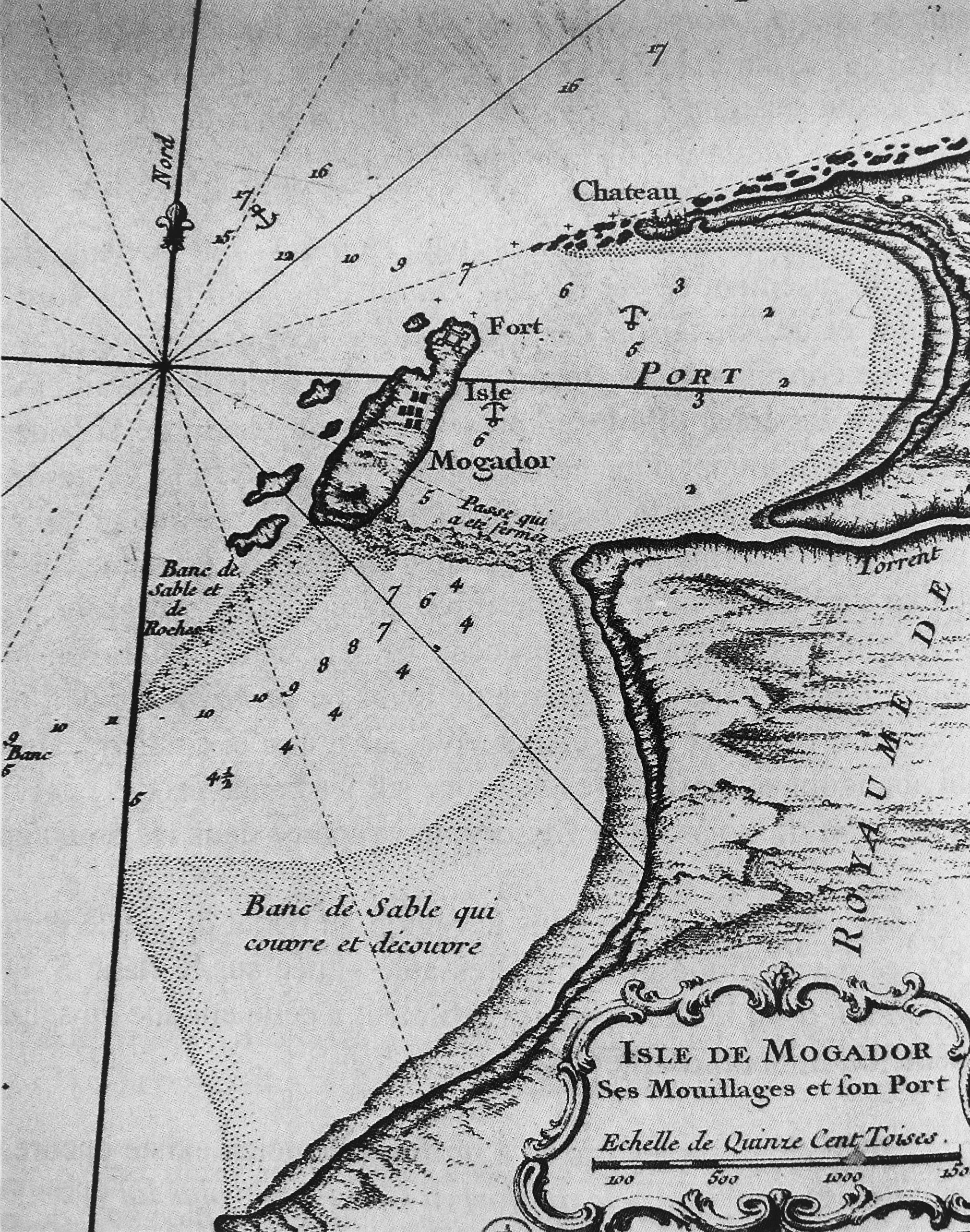 Isle_de_Mogador_18th_century